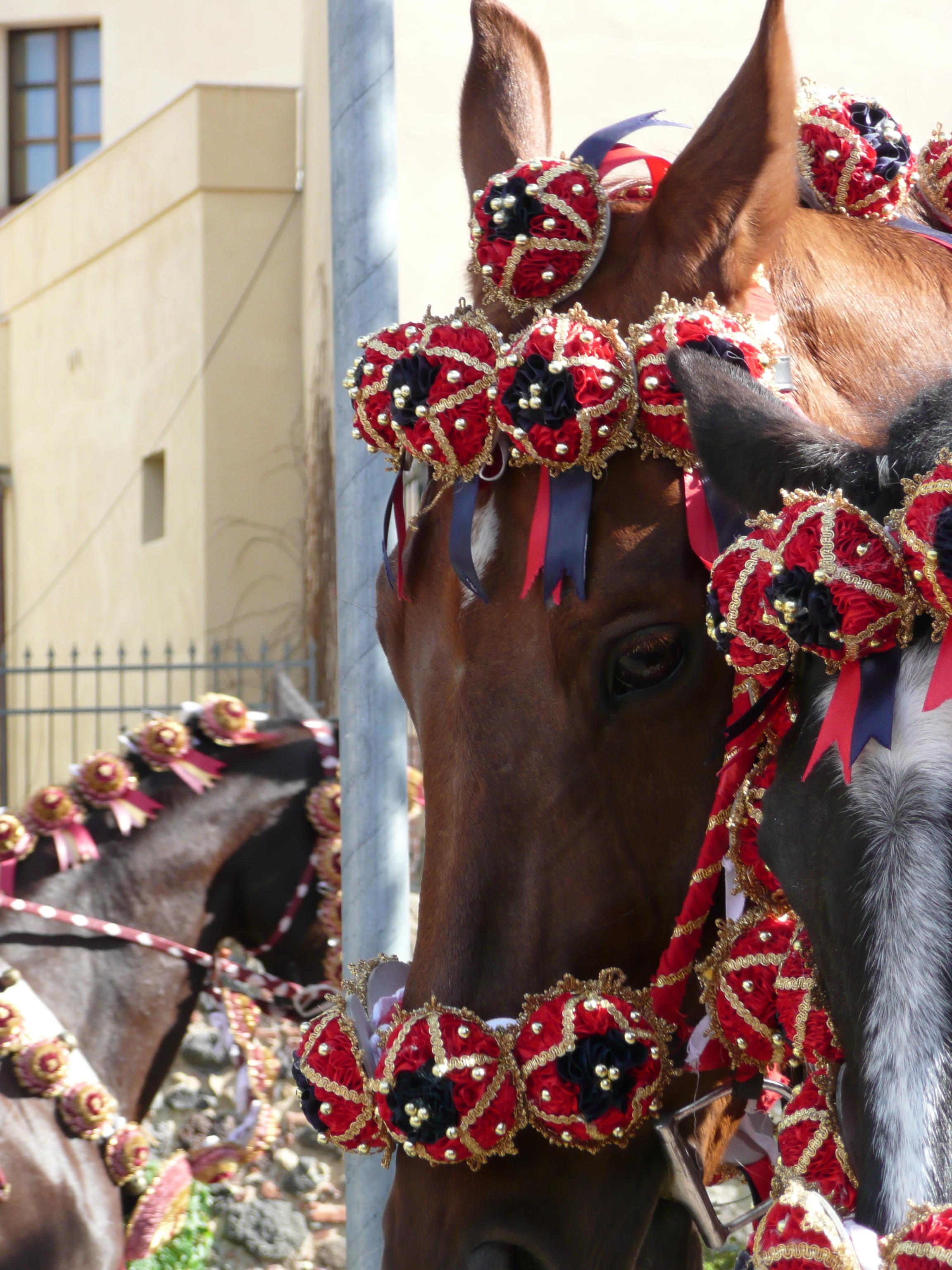 A horse with decoration at the traditional carnival "Sa Sartiglia" of Oristano, Sardinia, Italy.